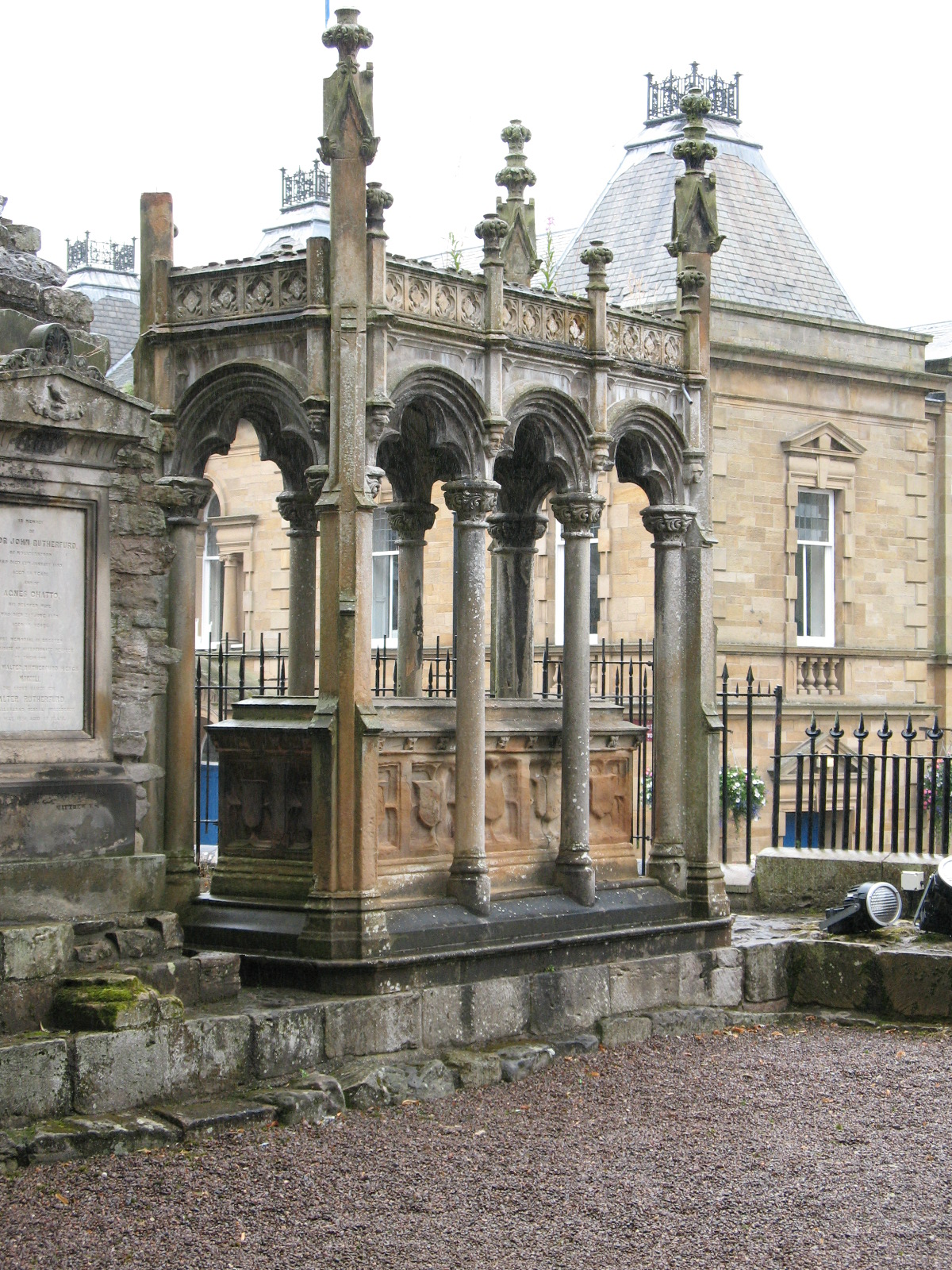 This tomb is located at the south end of Jedburgh Abbey.